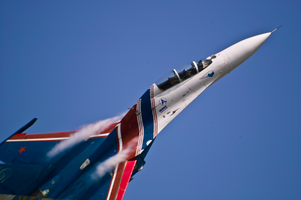 SU-27 at airshow. 17. Aug 2008. Day of aircraft.